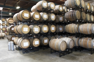 Oak barrels filled with sour beer at The Rare Barrel